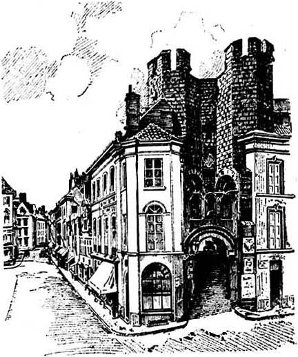 Gravensteen, Ghent, before restoration.